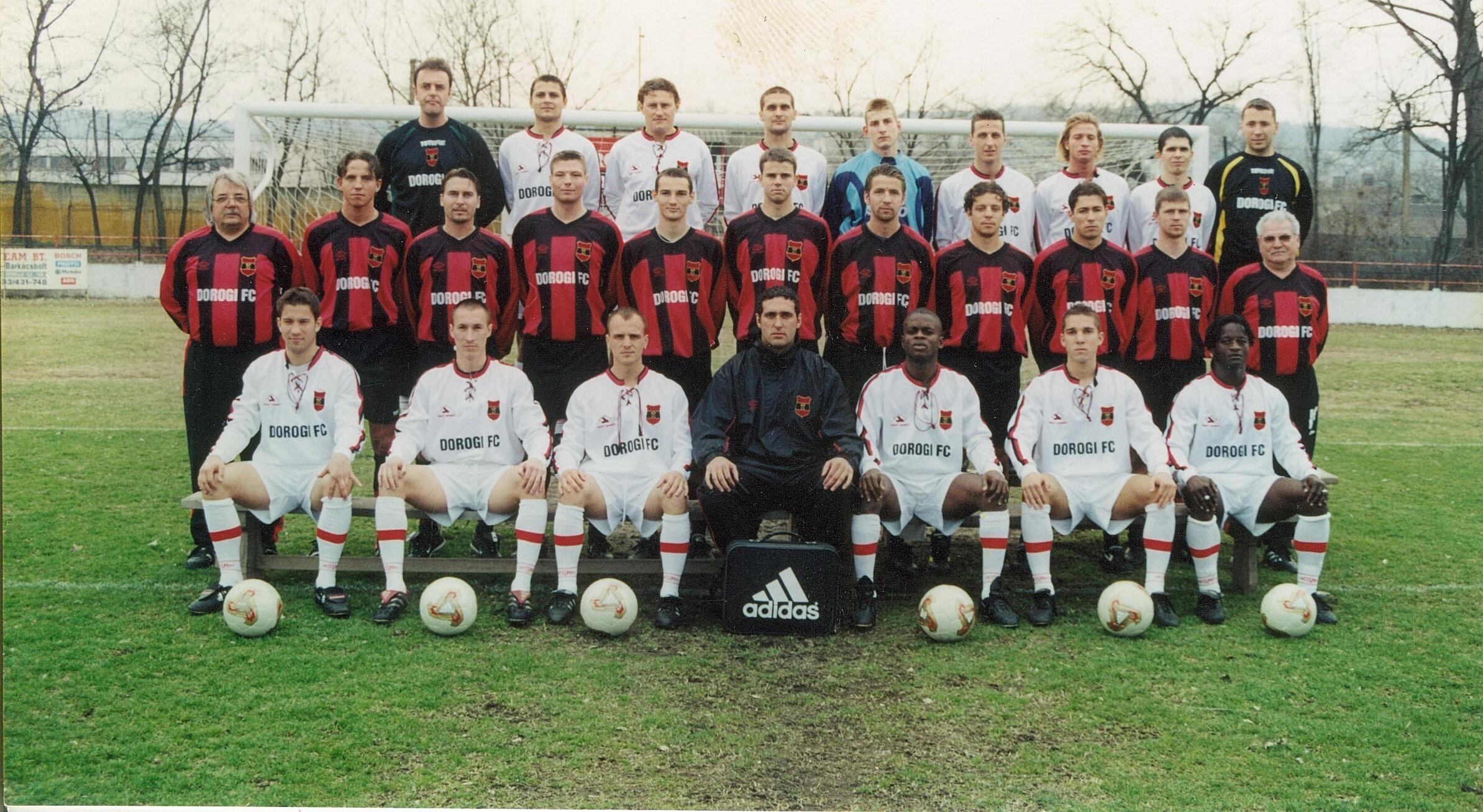 The last Dorogian team in NB. I/B.